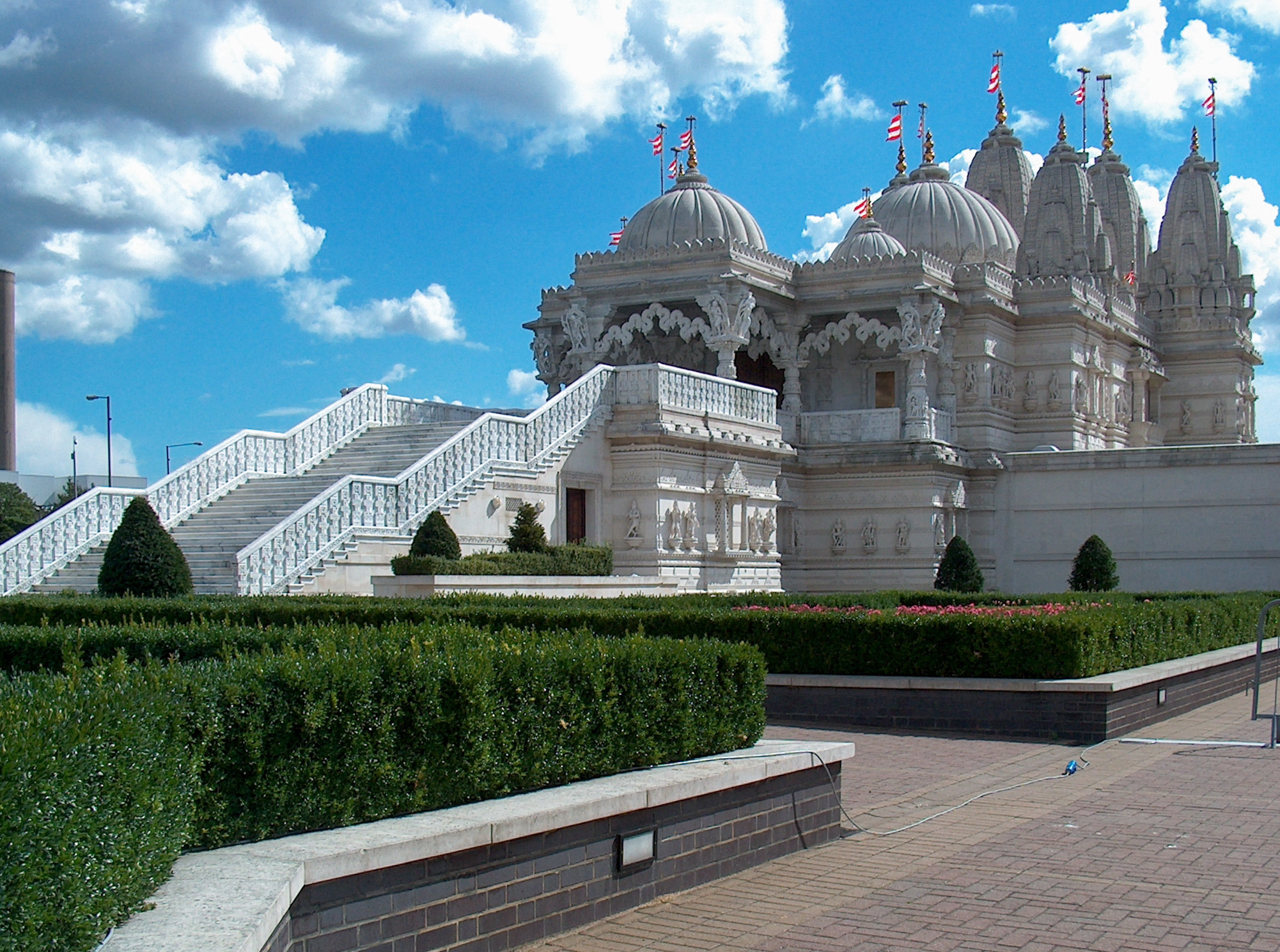 by Sharf Tonse Uploaded to wiki by user:nikkul